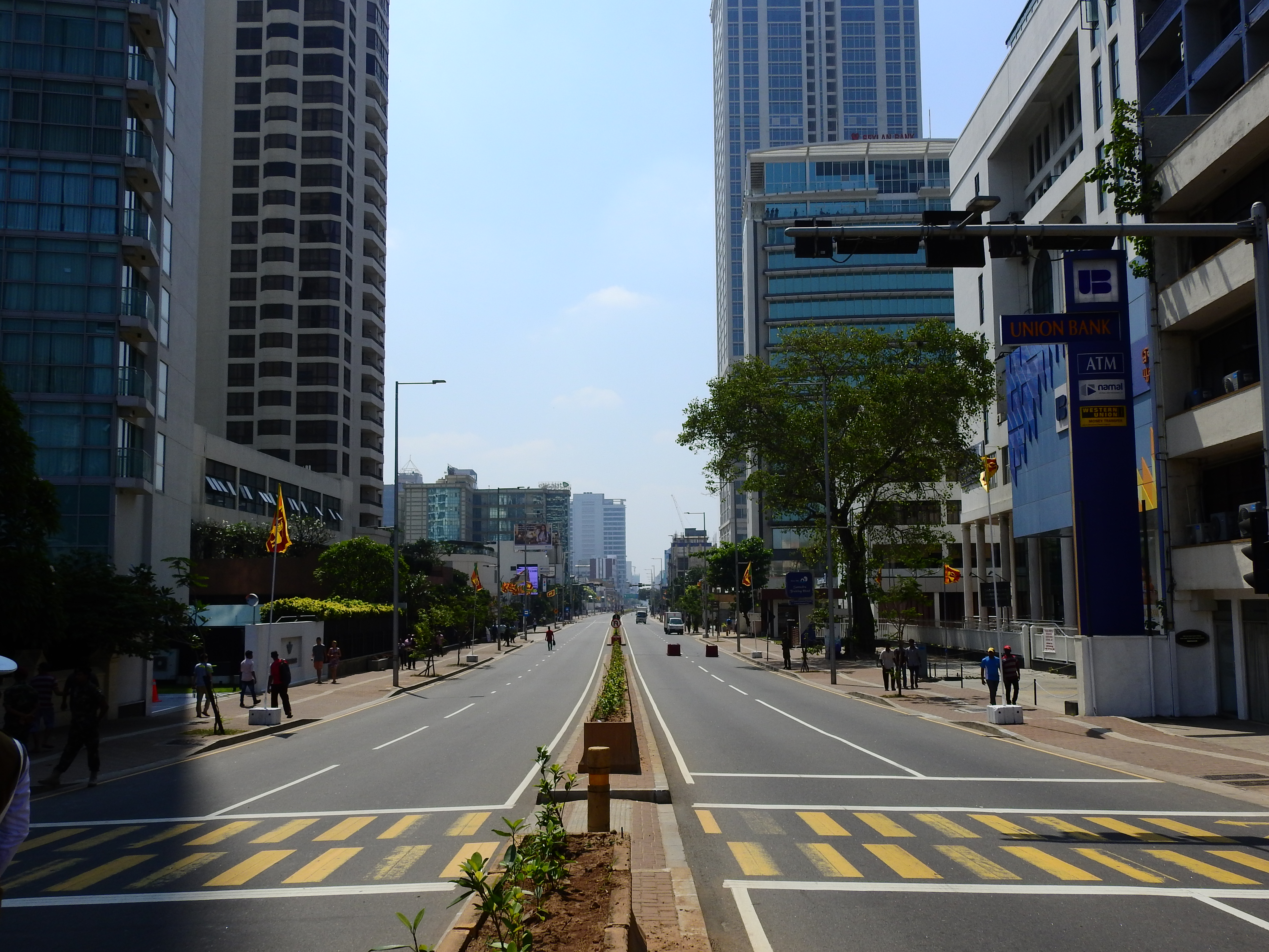 Galle Road during Sri Lanka's 70th Independence Day. 4th Feb 2018.